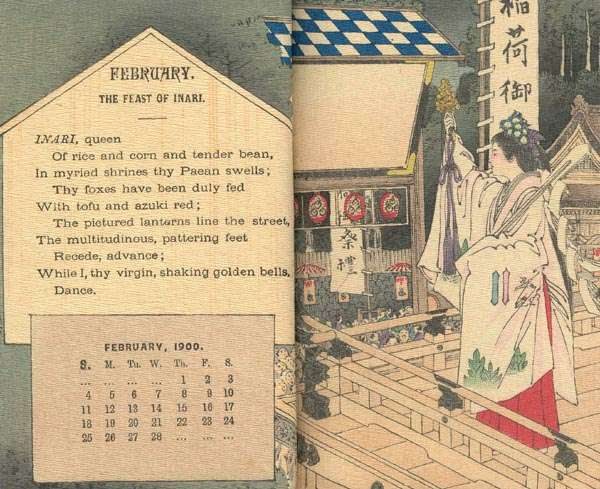 February 1900 calendar from Japanese Calendar with Verses by Osman Edwards